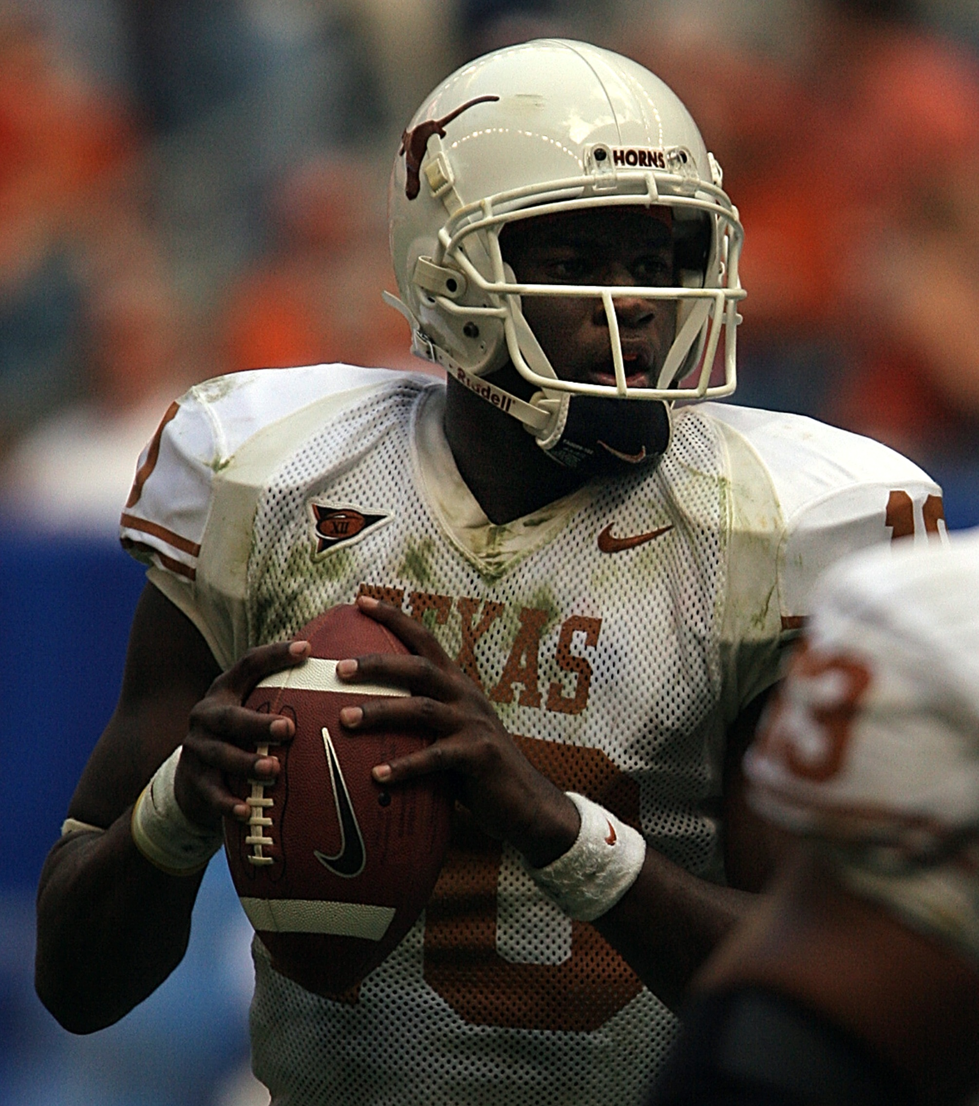 Vince Young during the 2005 Big XII championship game against the Colorado Buffaloes. Texas would go on to win the game and the national title.